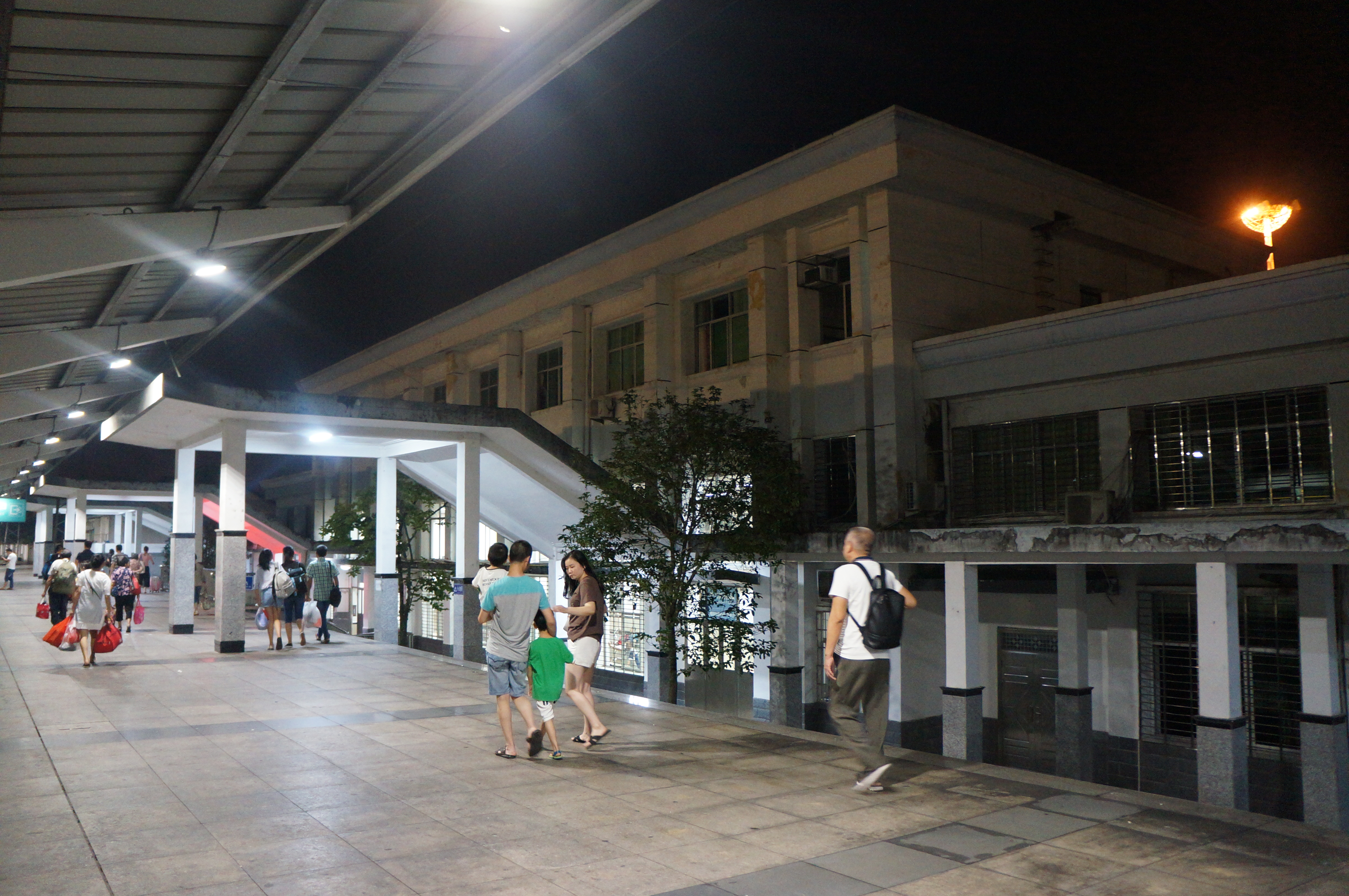 201708 Station building of Shaowu